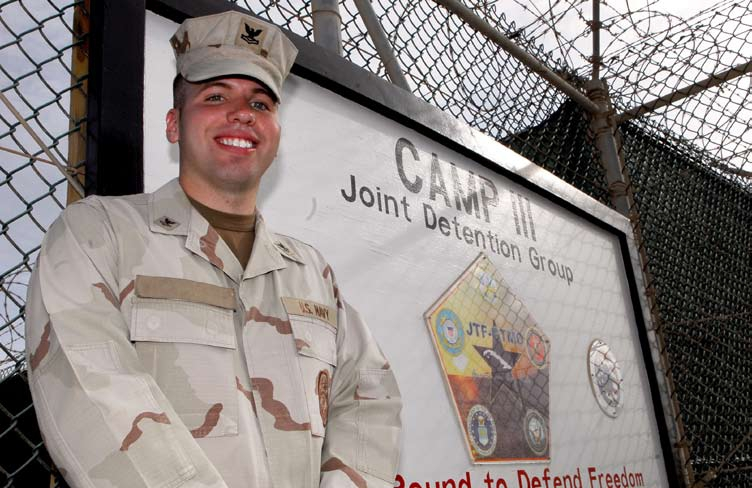 Navy Petty Officer 2nd Class Austin Humphries poses in a photo after reenlisting in the Navy for six more years, April 30. – JTF Guantanamo photo by Army Sgt. Michael Baltz